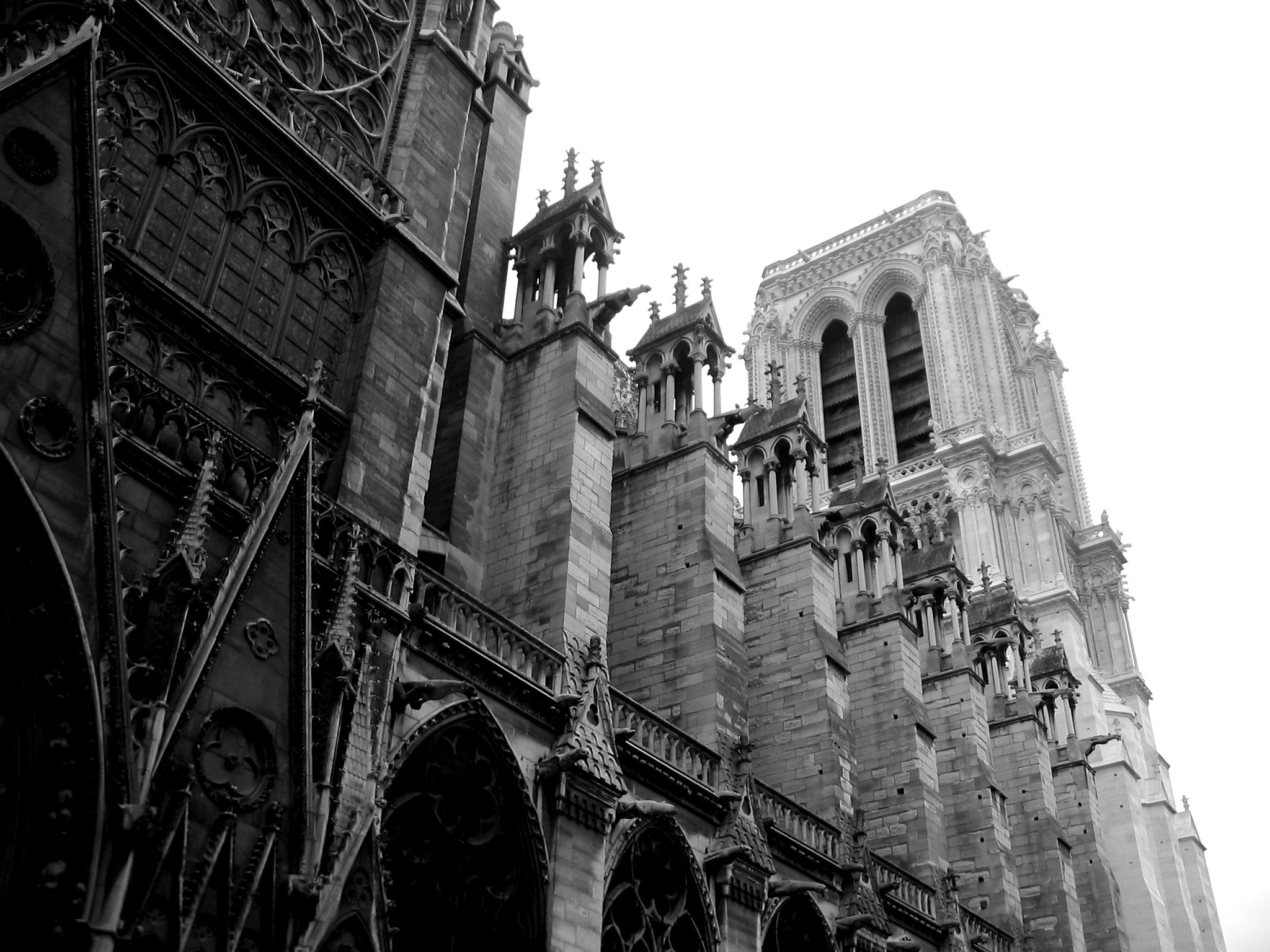 View or northern facade of Notre-Dame de Paris.